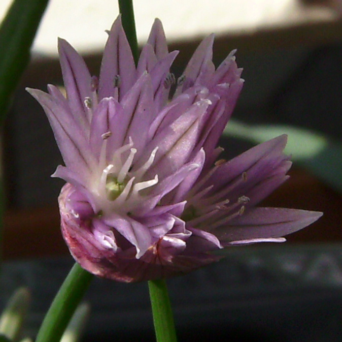 Chives (Allium schoenoprasum) flower, Barcelona Catalonia